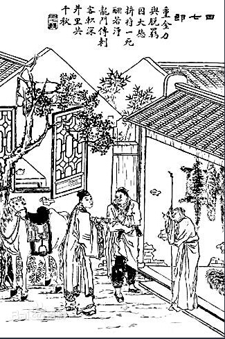 19th-century illustration of a scene from the short story "Tian Qilang" collected in Strange Tales from a Chinese Studio (1740).